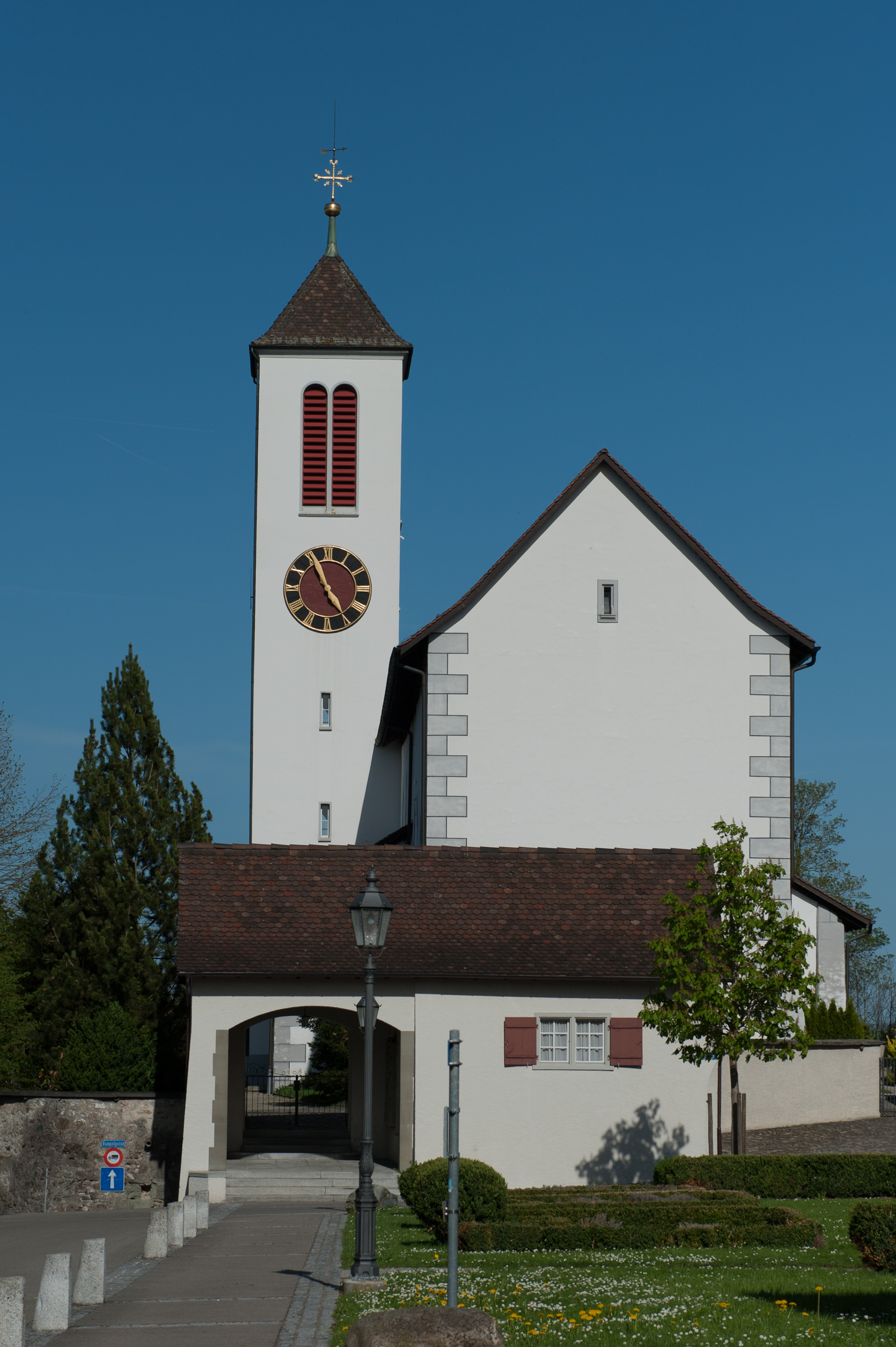 Church of Pfyn TG